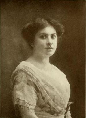 Stella Weiner Kriegshaber, Kajiwara Photo, Johnson, Anne (André) "Mrs. Charles P. Johnson", 1871-. Notable women of St. Louis, 1914; (Kindle Location 4402). [St. Louis, Woodward.]